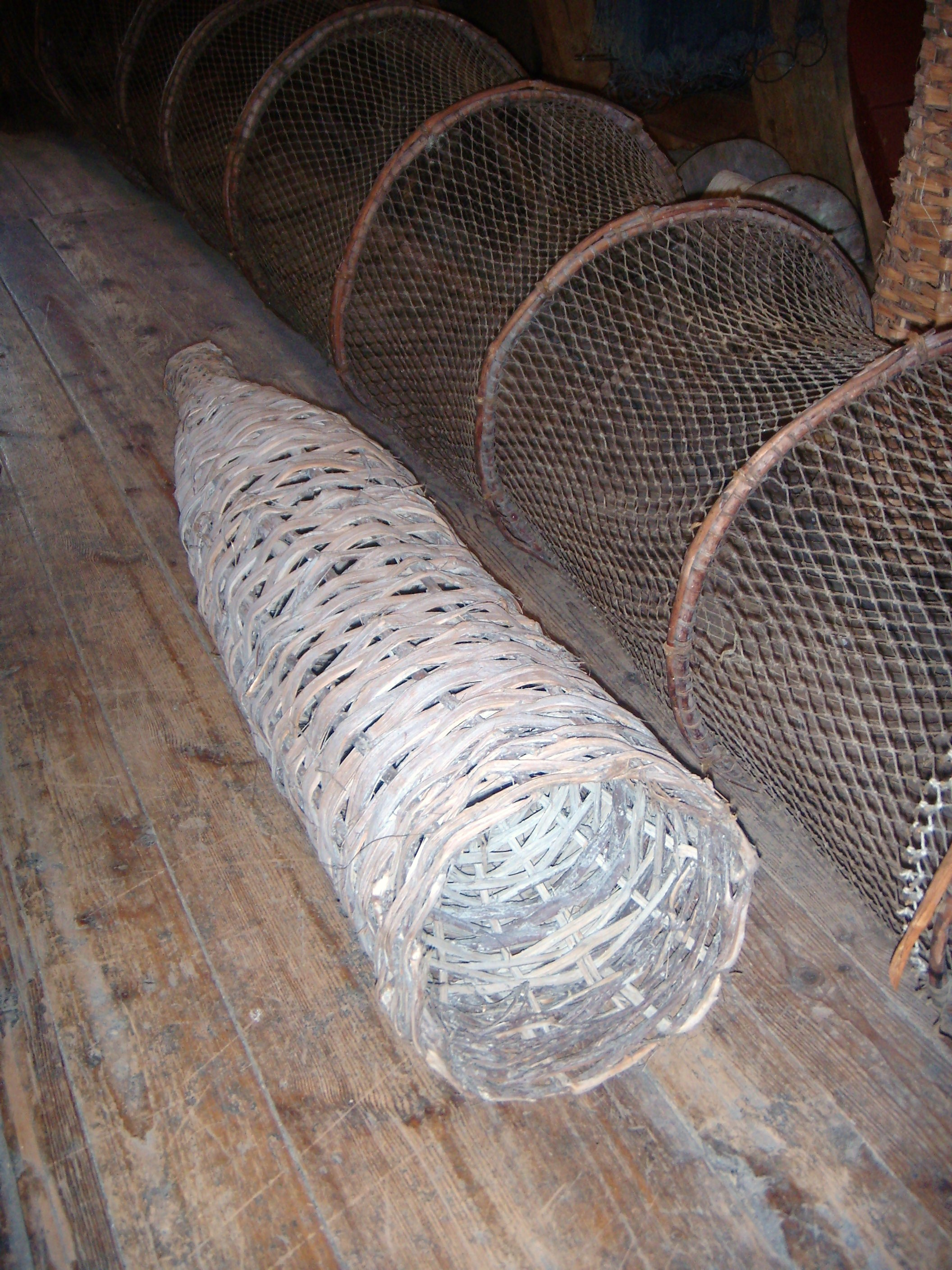 Fish trap in Sweden made from Juniperus communis.